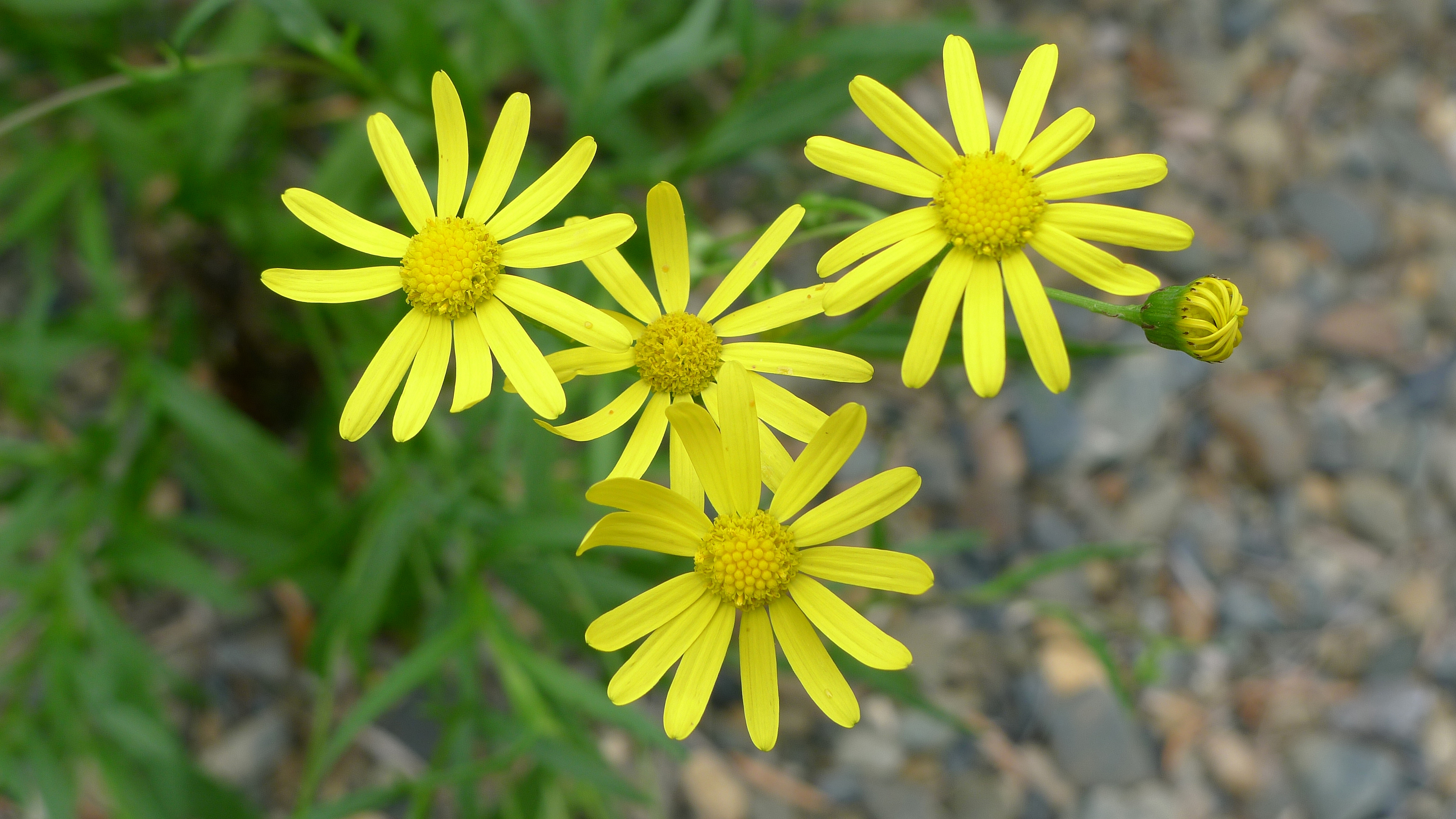 Fireweed, Senecio madagascariensis, flowers. Nymboida National Park, NSW, Australia, August 2014.